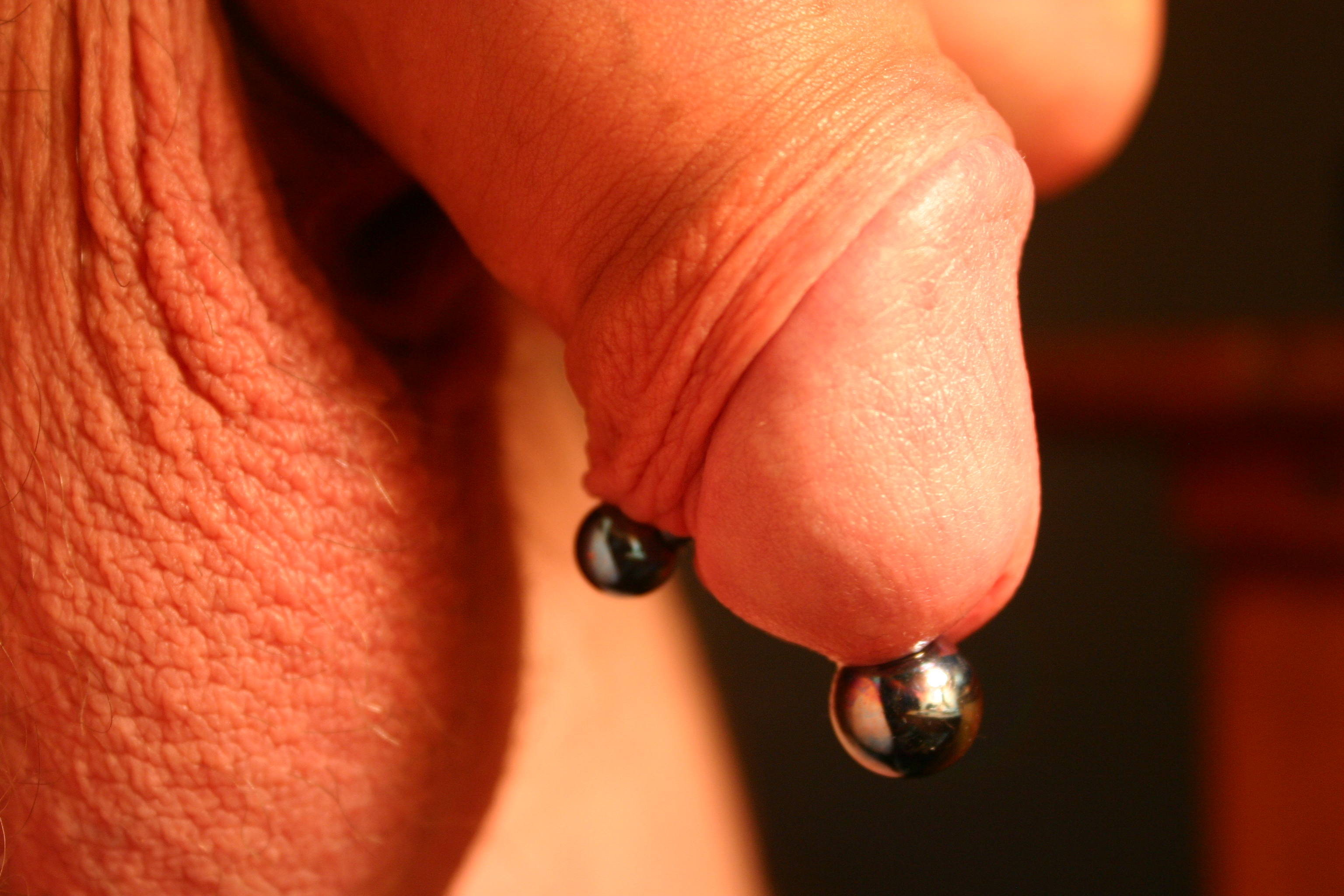 Prince Albert piercing with curved barbell